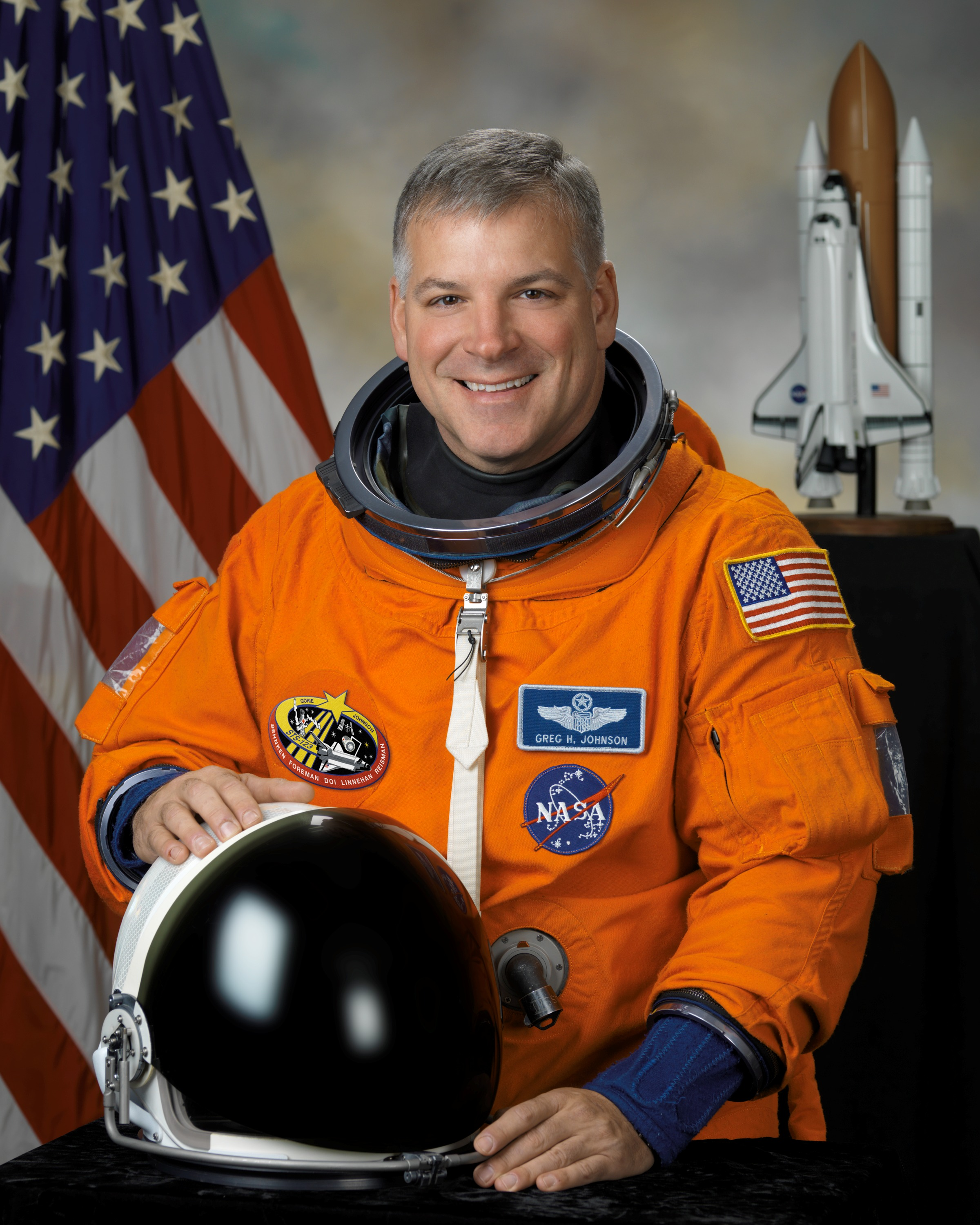 Astronaut Gregory H. Johnson, pilot of STS-123.